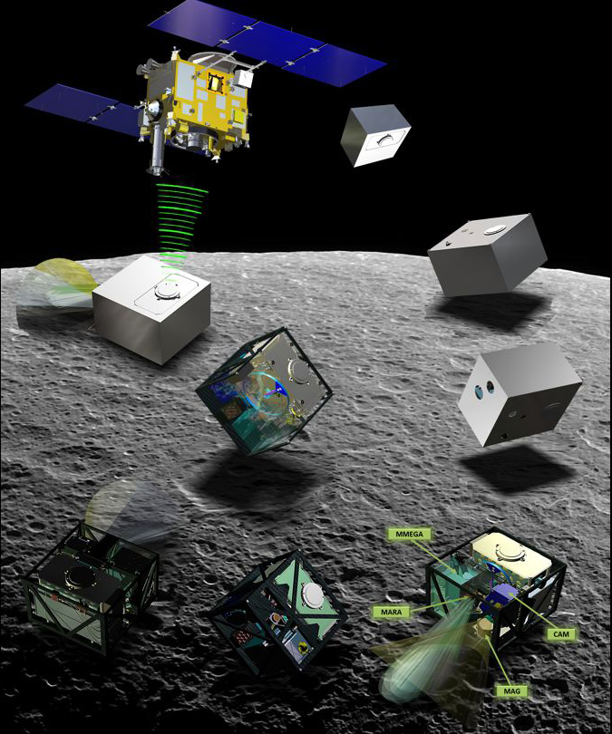 The asteroid lander MASCOT (Mobile Asteroid Surface Scout) has been on its way to the near-Earth Asteroid (162173) Ryugu (1999 JU3) since three December 2014. Currently on board the Japanese Hayabusa2 orbiter, it will reach its destination in 2018. Once there, the Haybusa2 probe will fly over the asteroid and collect material from the surface to be sent back to Earth. MASCOT, on the other hand, will free fall from a height of 100 metres, landing on the asteroid, which has a diameter of one kilometre. It will move around and, for the first time in the history of space travel, carry out measurements in several areas of the asteroid.